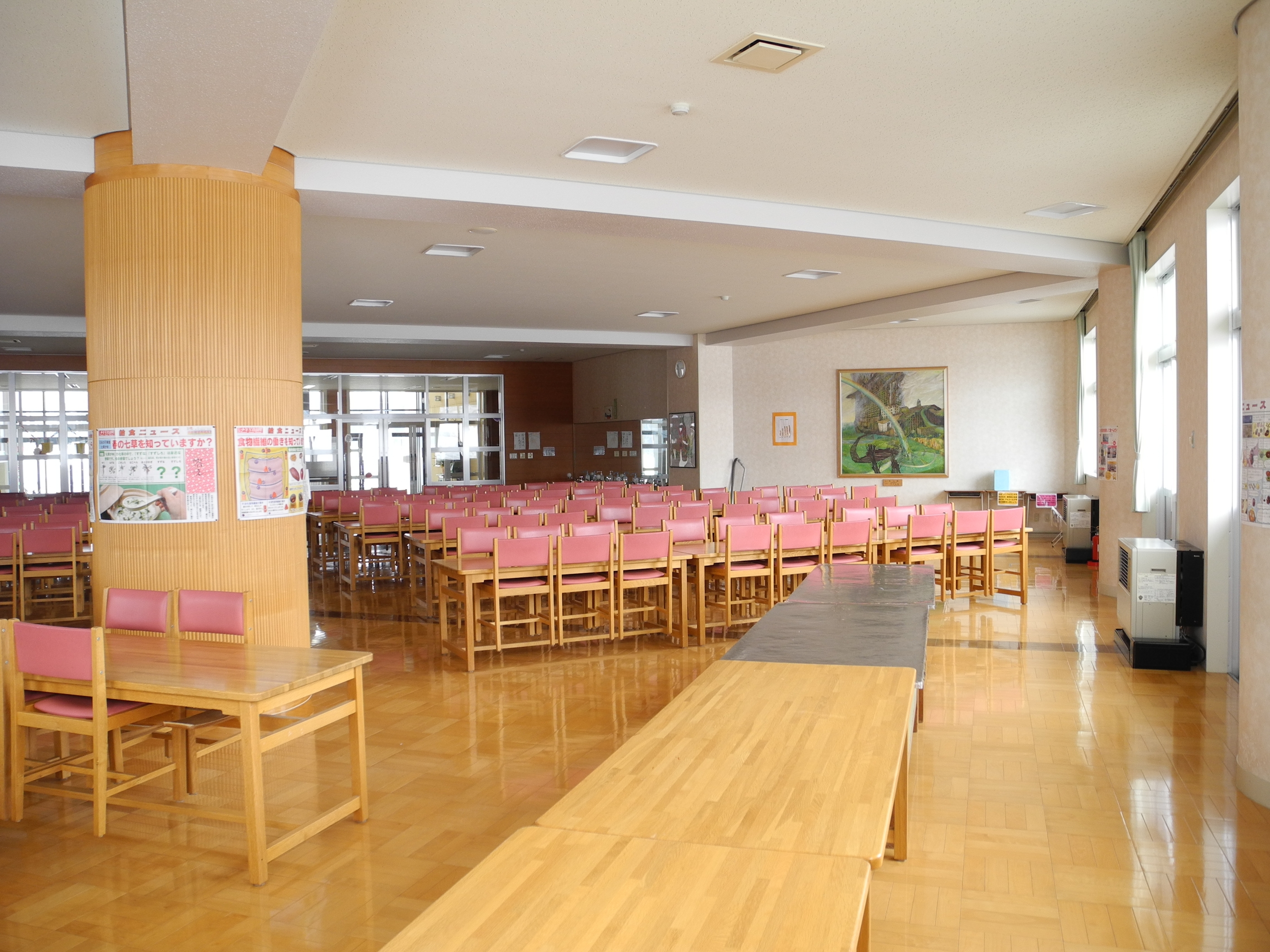 School lunch room. Chokai Junior High School. Fushimi, Chokai, Yurihonjo, Akita, Japan.